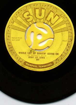 Sun 45 rpm record label, with the company logo clearly visible